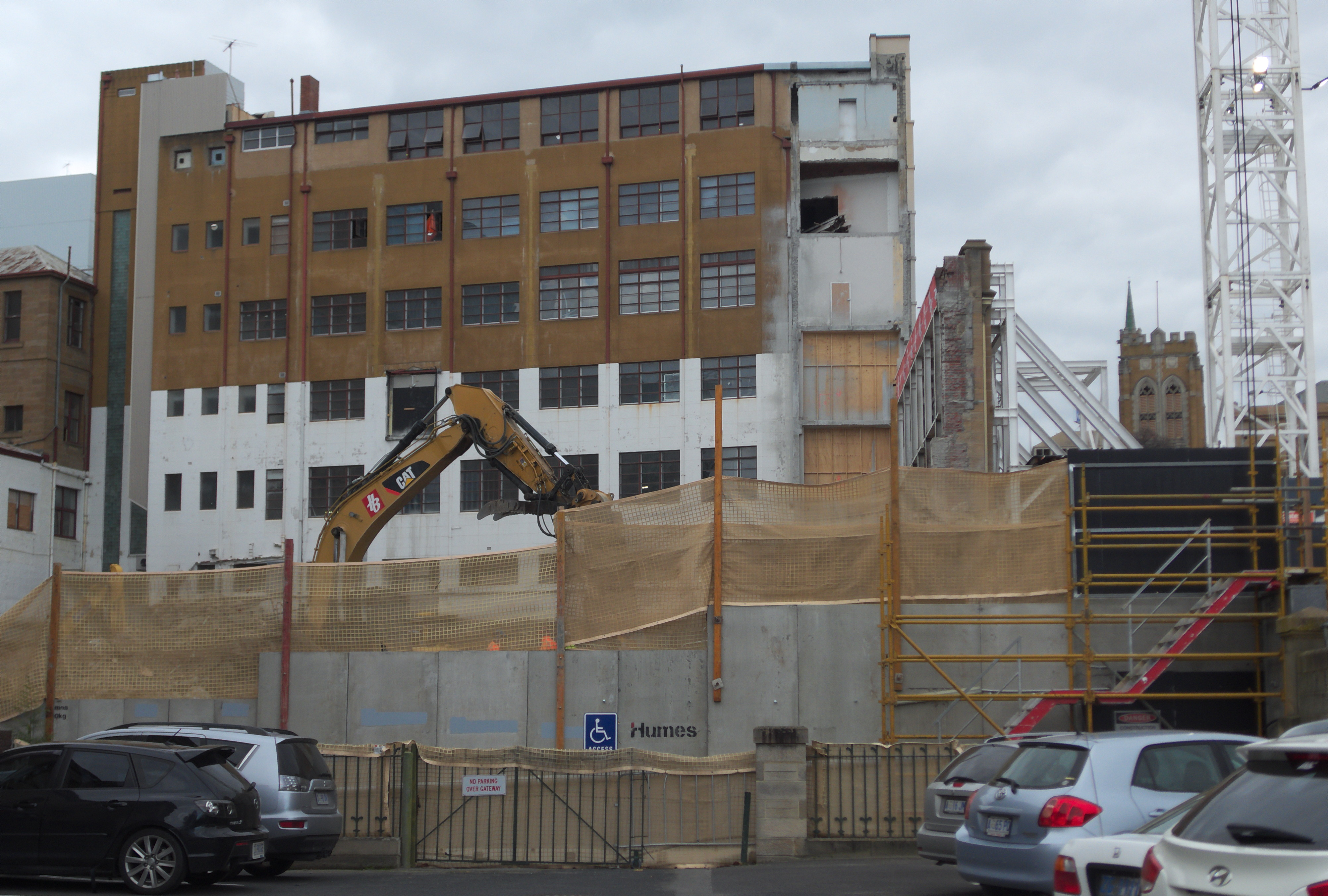 Construction site in Hobart, after demolition of buildings at 10 and 12 Murray Street. The facade of No. 12 remains on the right. The building on the far side is 34 Davey Street.